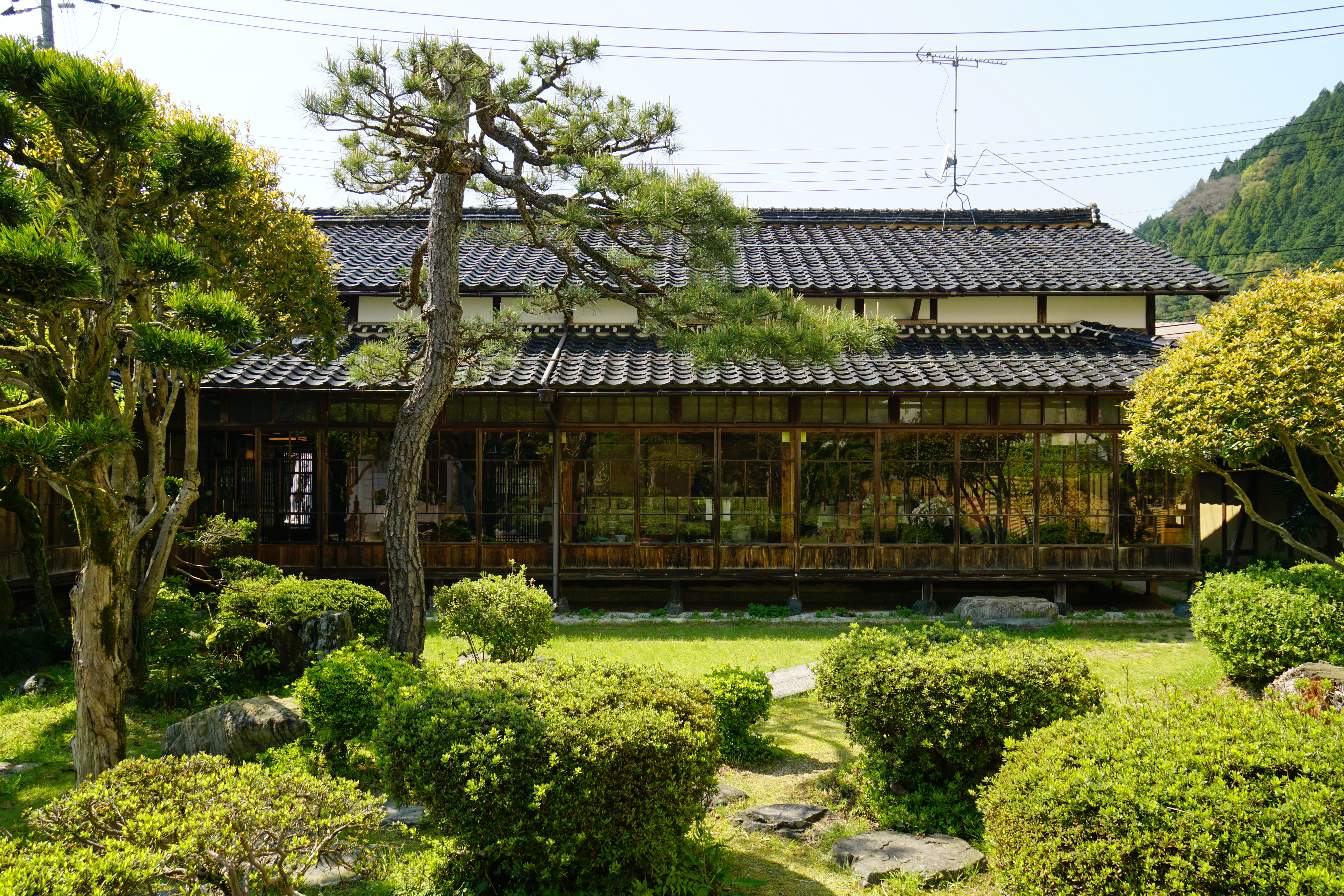 Old Shioya Demise in Chizu, Tottori prefecture, Japan